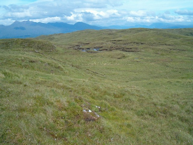 Moorland. View towards Cruachan.